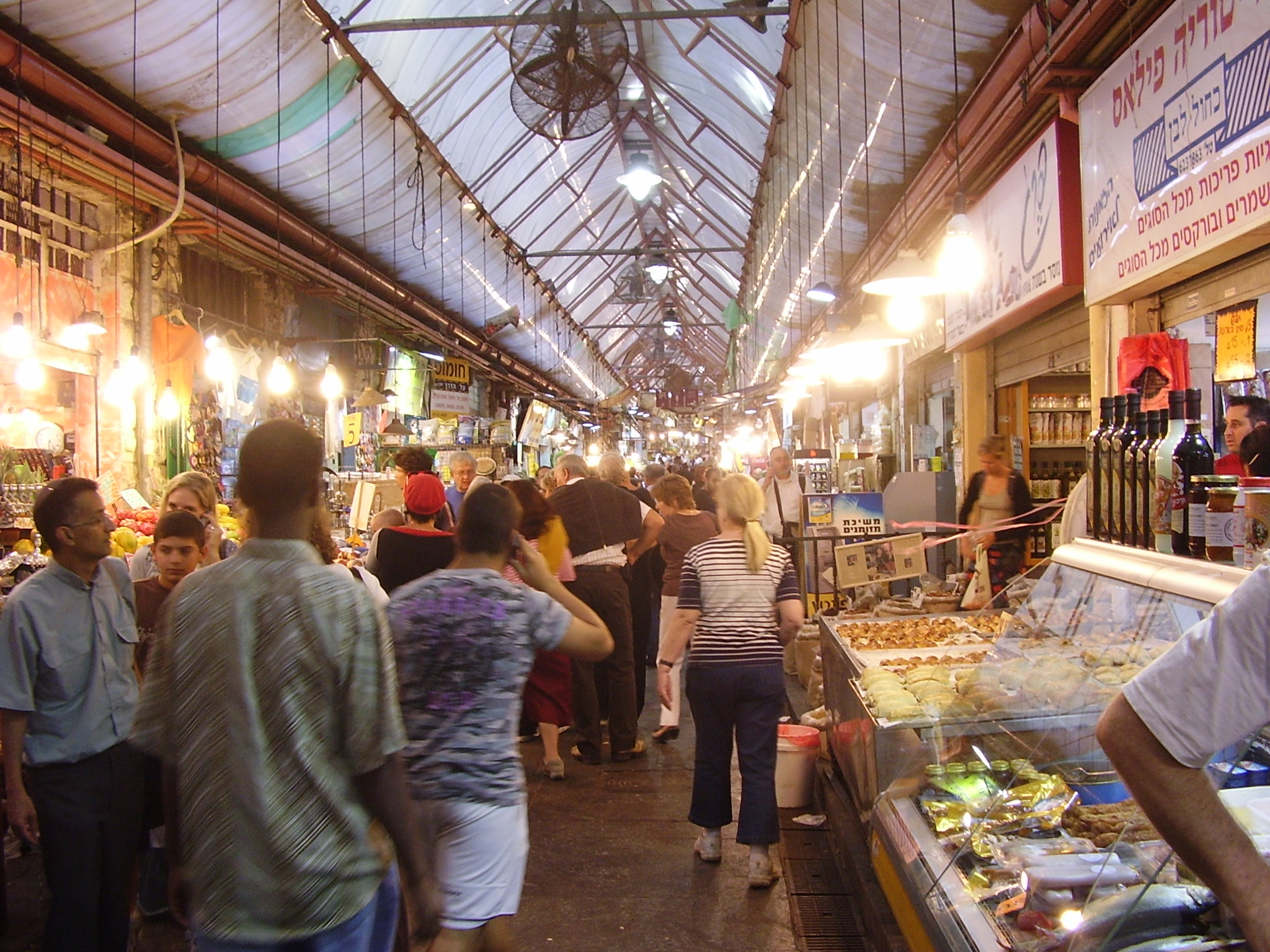 machane yehuda market in jerusalem